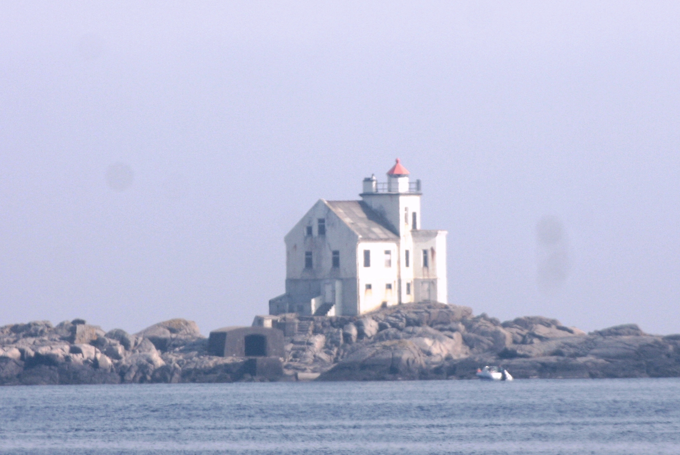 Katland lighthouse, Farsund municipality, at the start of the Lyngdals Fjord, county of Vest-Agder, Norway.